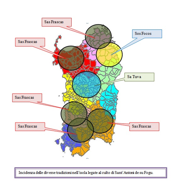 Sant'Antoni